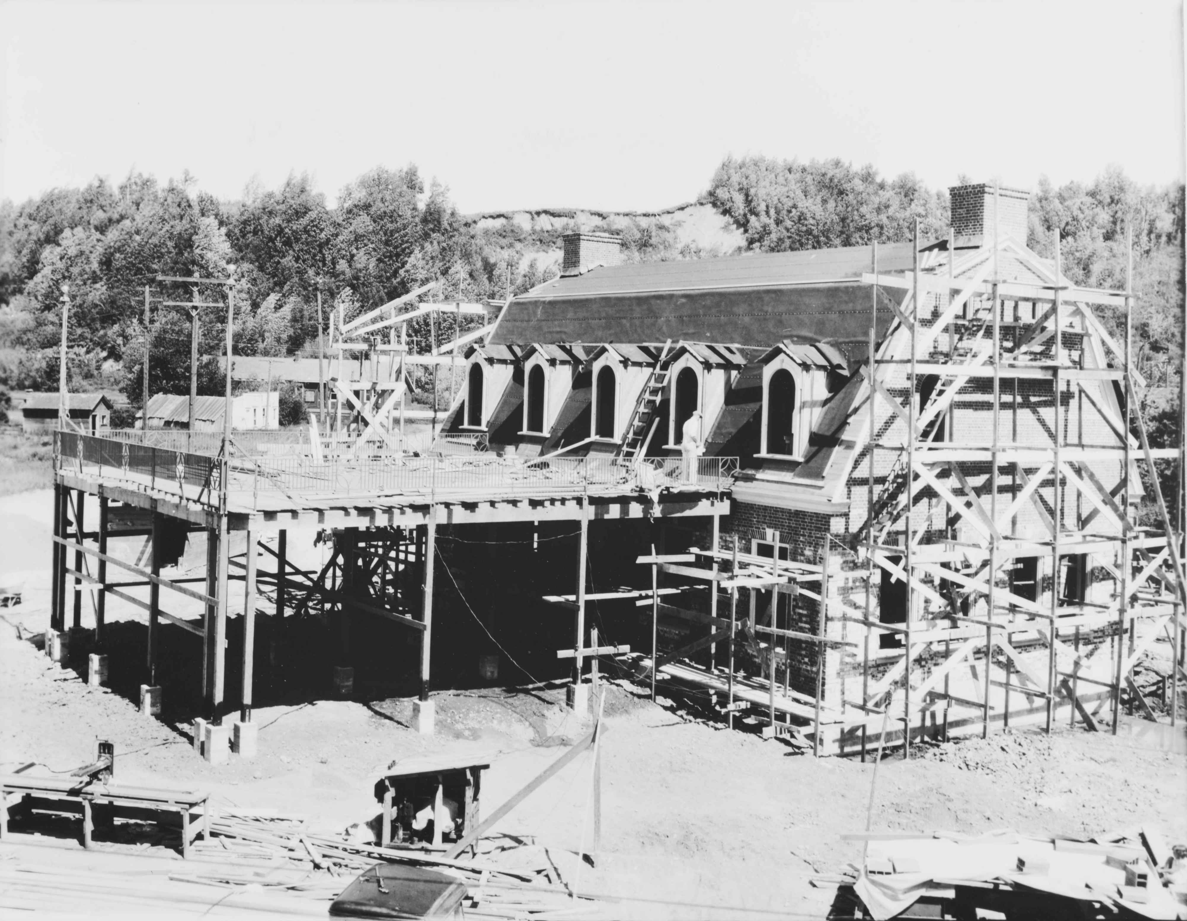 Construction of the US Border inspection station at Sumas, WA in 1932 Other information Library of Congress Call Number: Call Number: HABS WASH,37-SUM,1--16